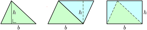 Triangle Geometry Area